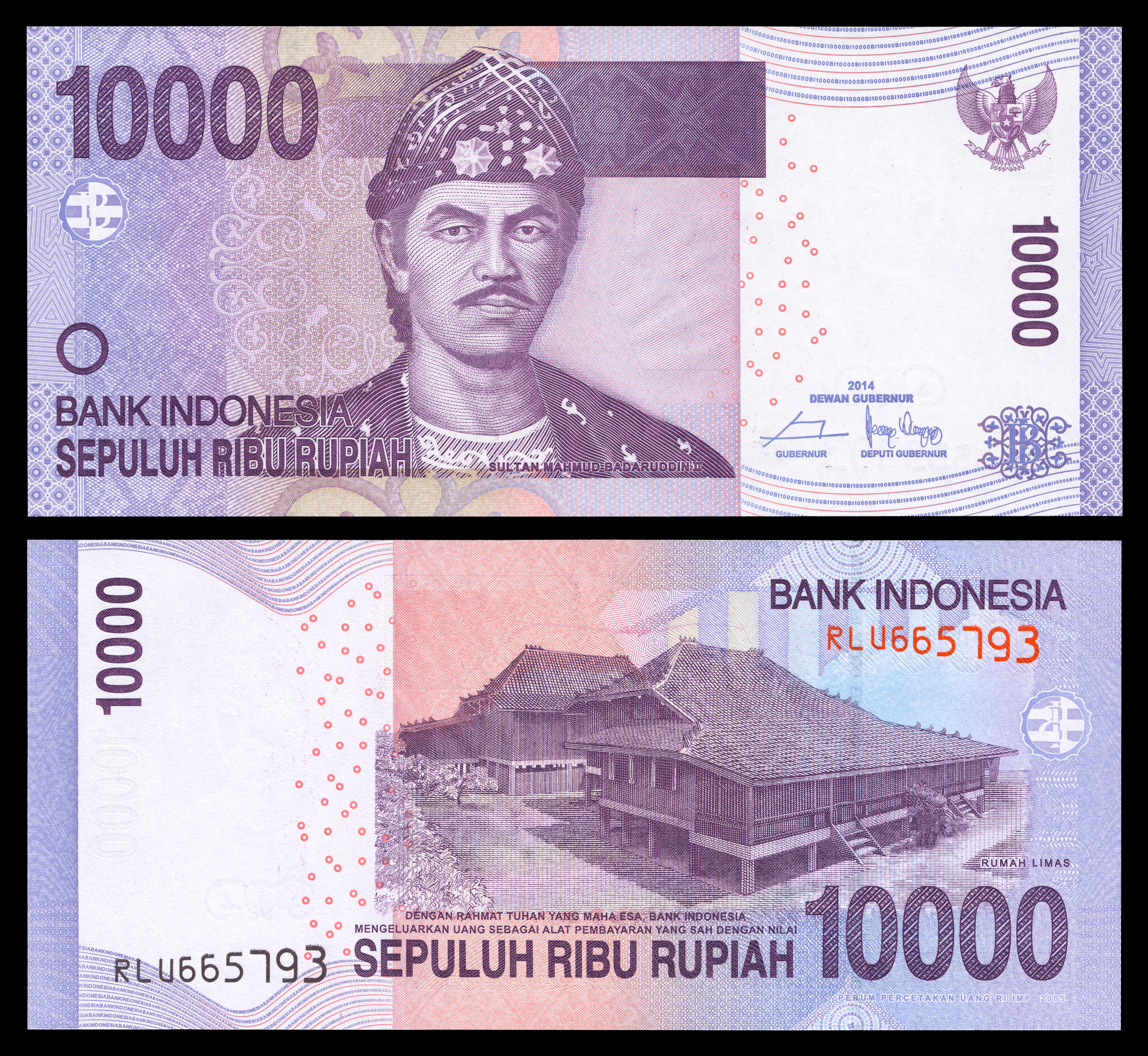 10000 rupiah bill, 2014 series, processed, obverse+reverse